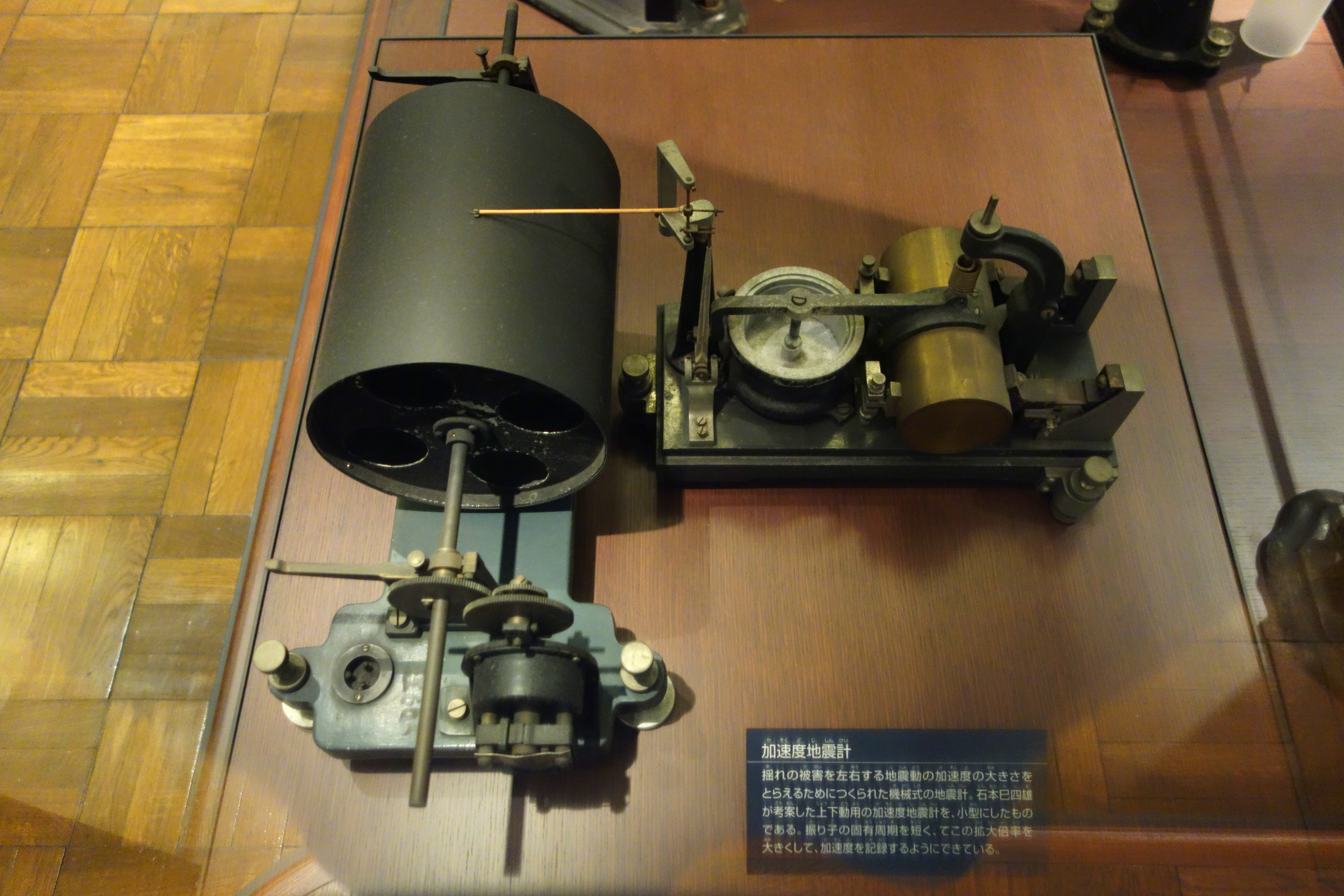 Exhibit in the National Museum of Nature and Science, Tokyo, Japan.